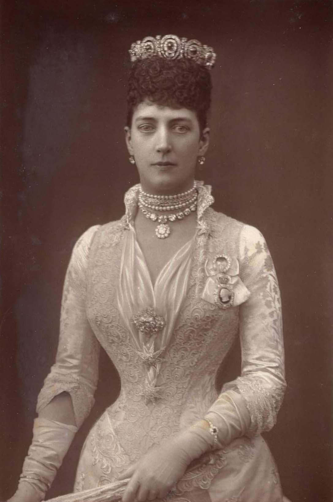 Alexandra of Denmark (1844-1925)